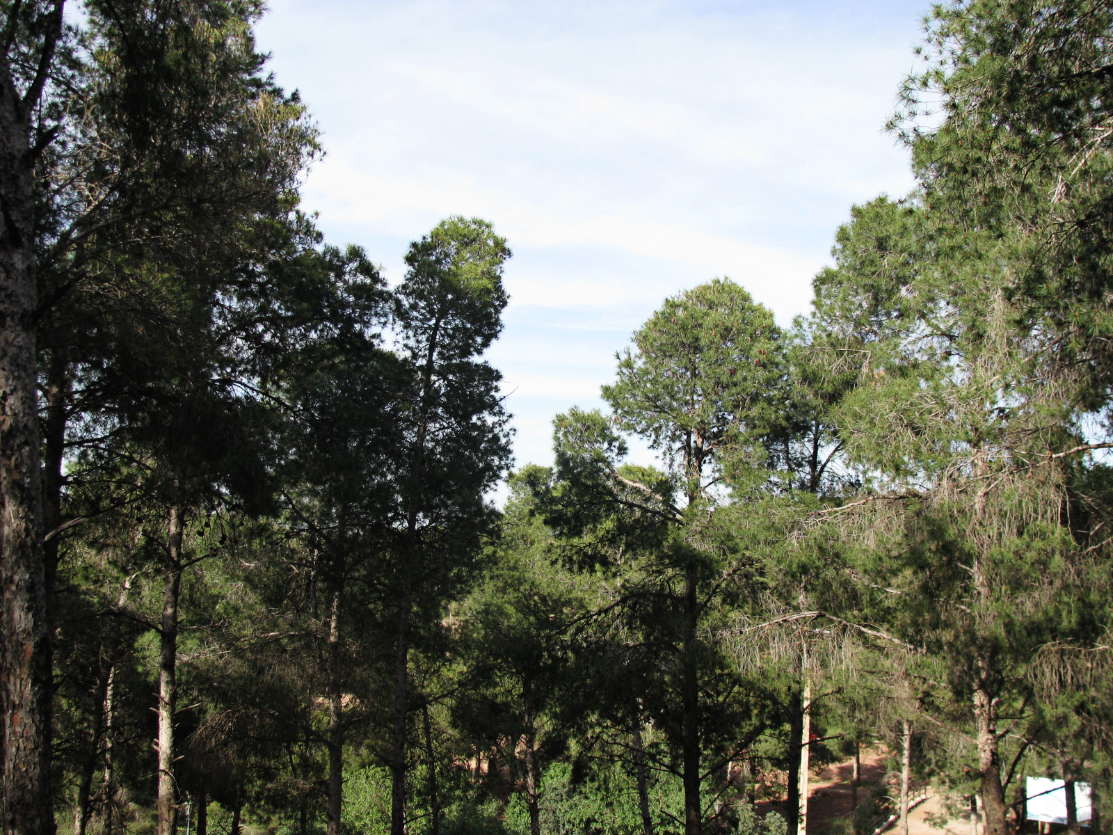 Sidi Maafa park at Oujda, Morocco